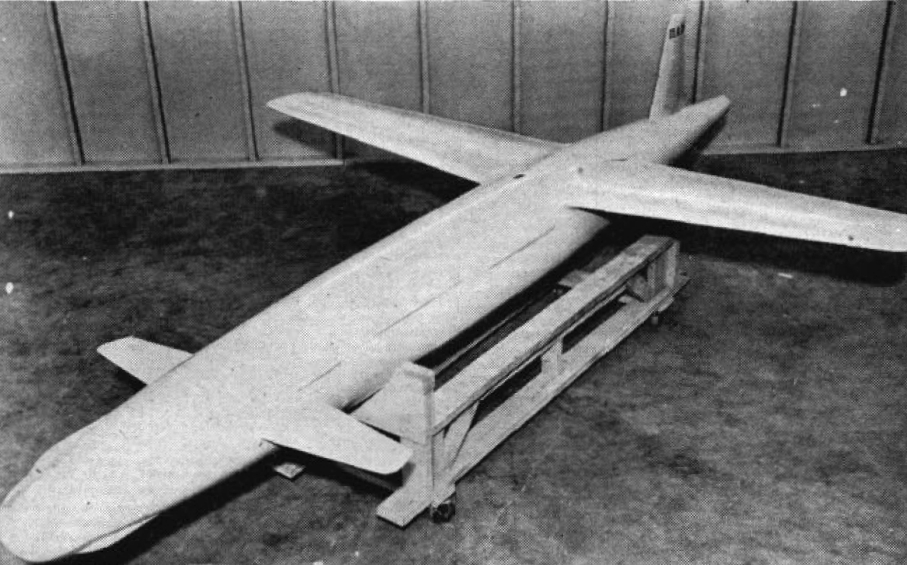 A U.S. Navy KU2N-1 Gorgon IIA missile in 1947.